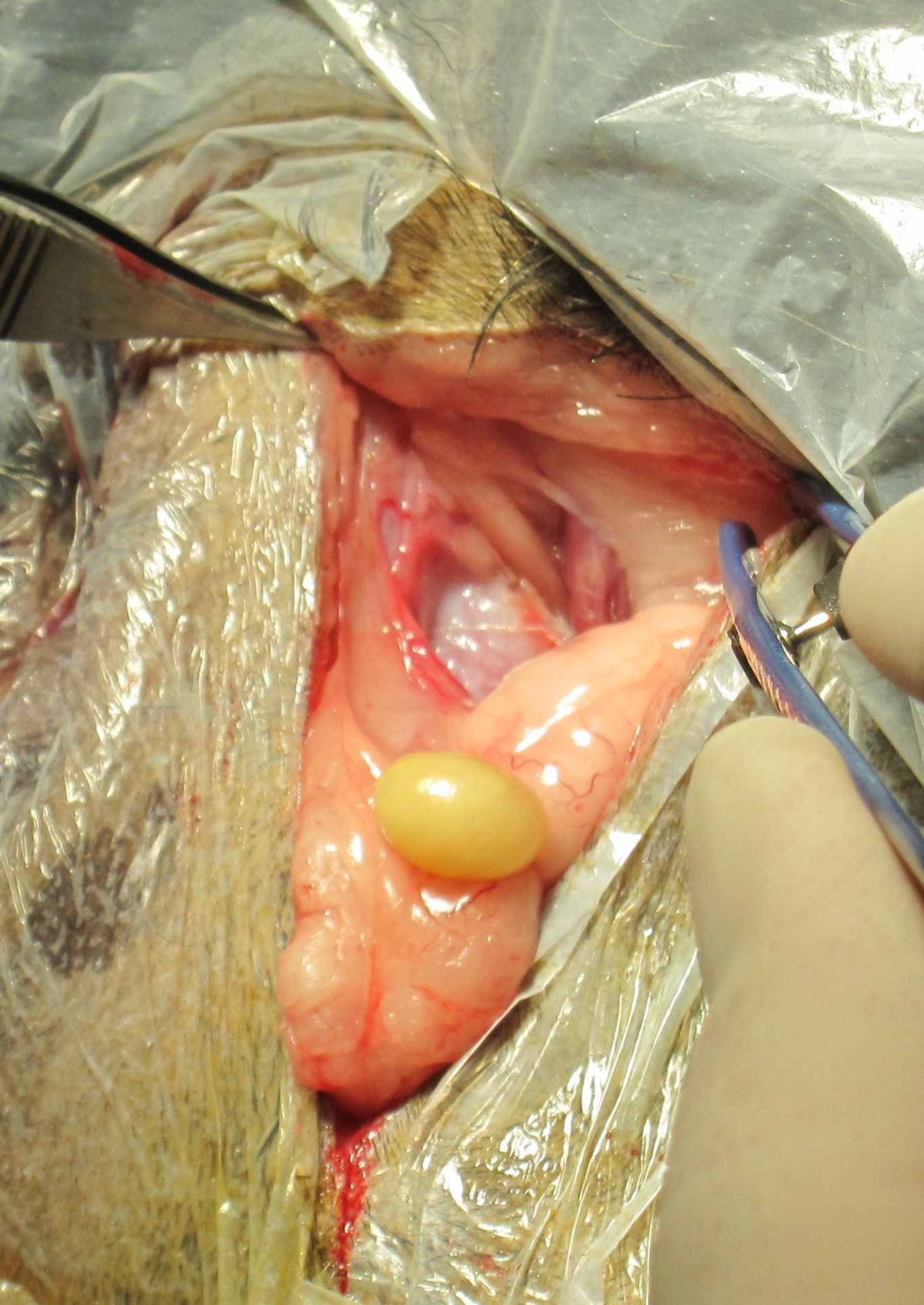 Surgery of a perineal hernia in a dog